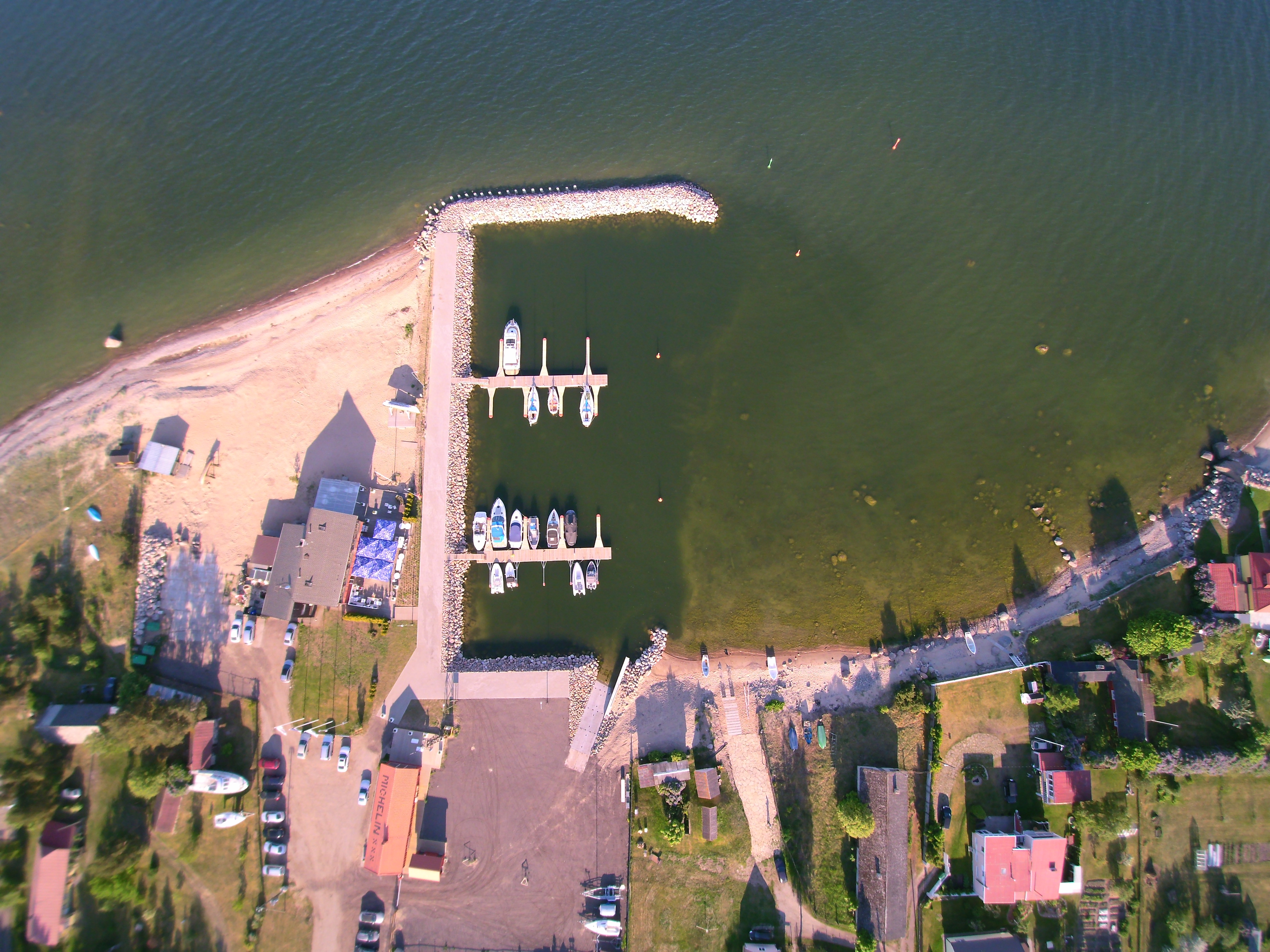 Kaberneeme Marina